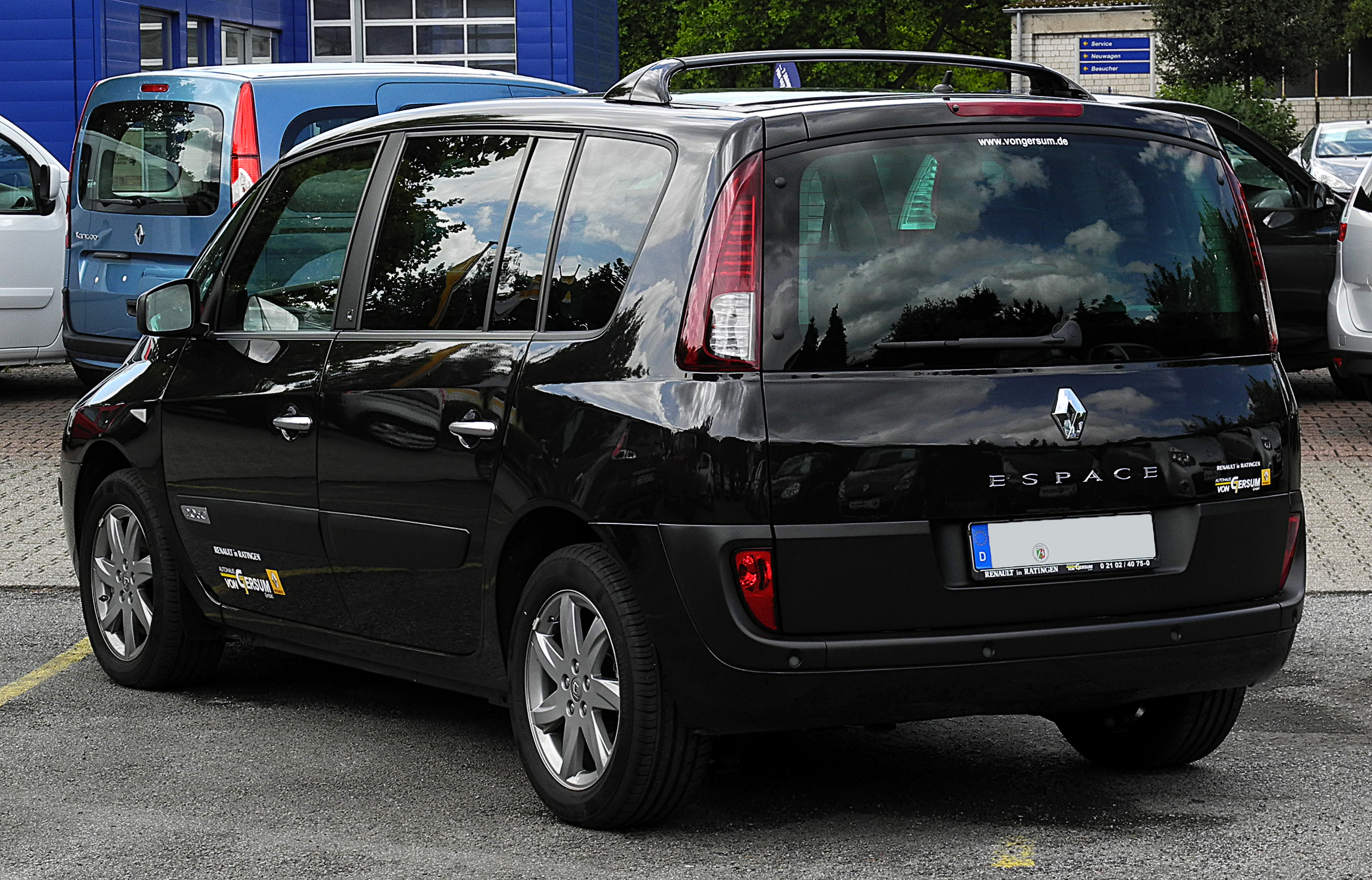 Renault Espace Edition 25th dCi 175 (IV, Facelift)